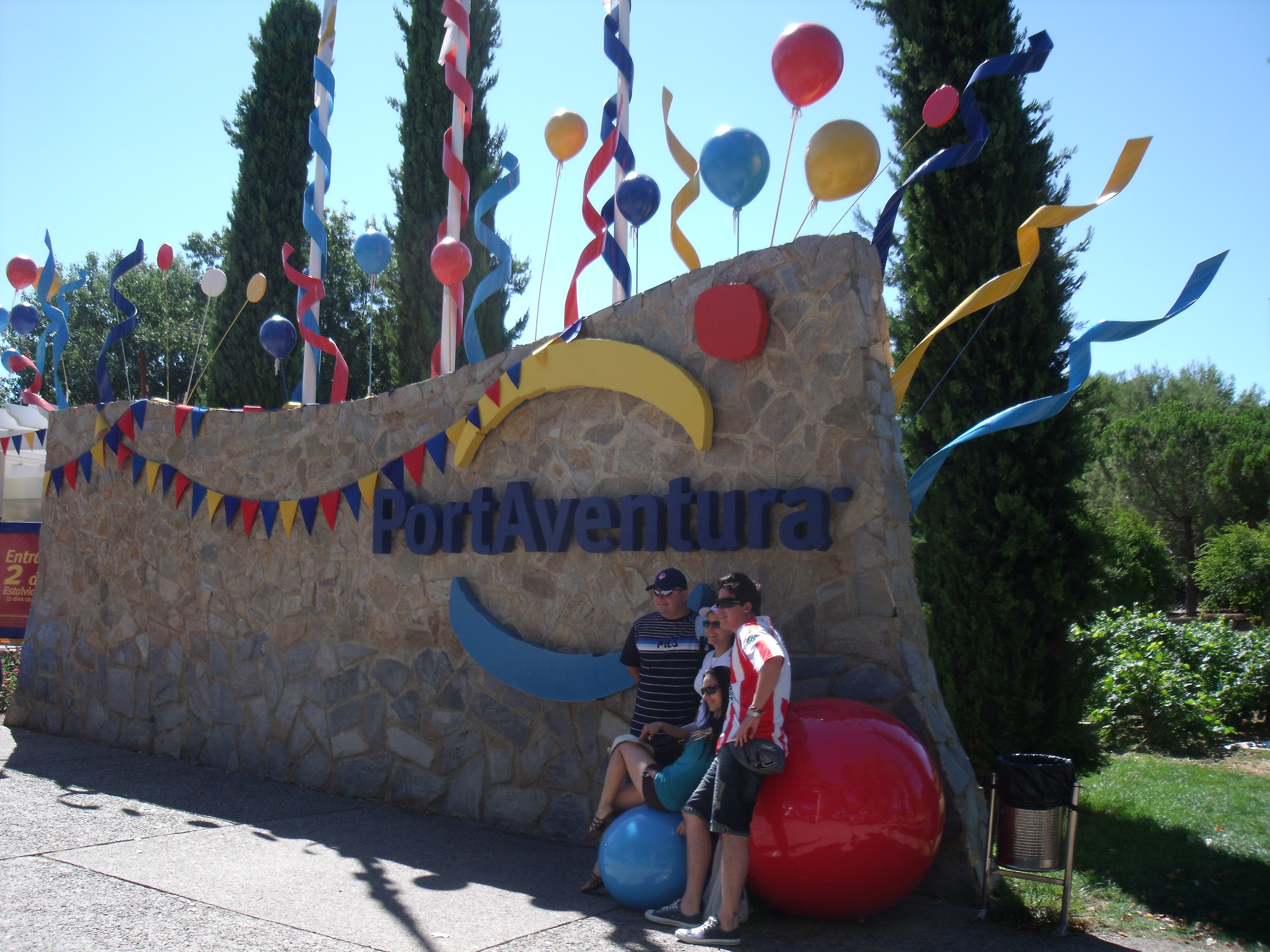 The PortAventura entrance logo for the 15th anniversary